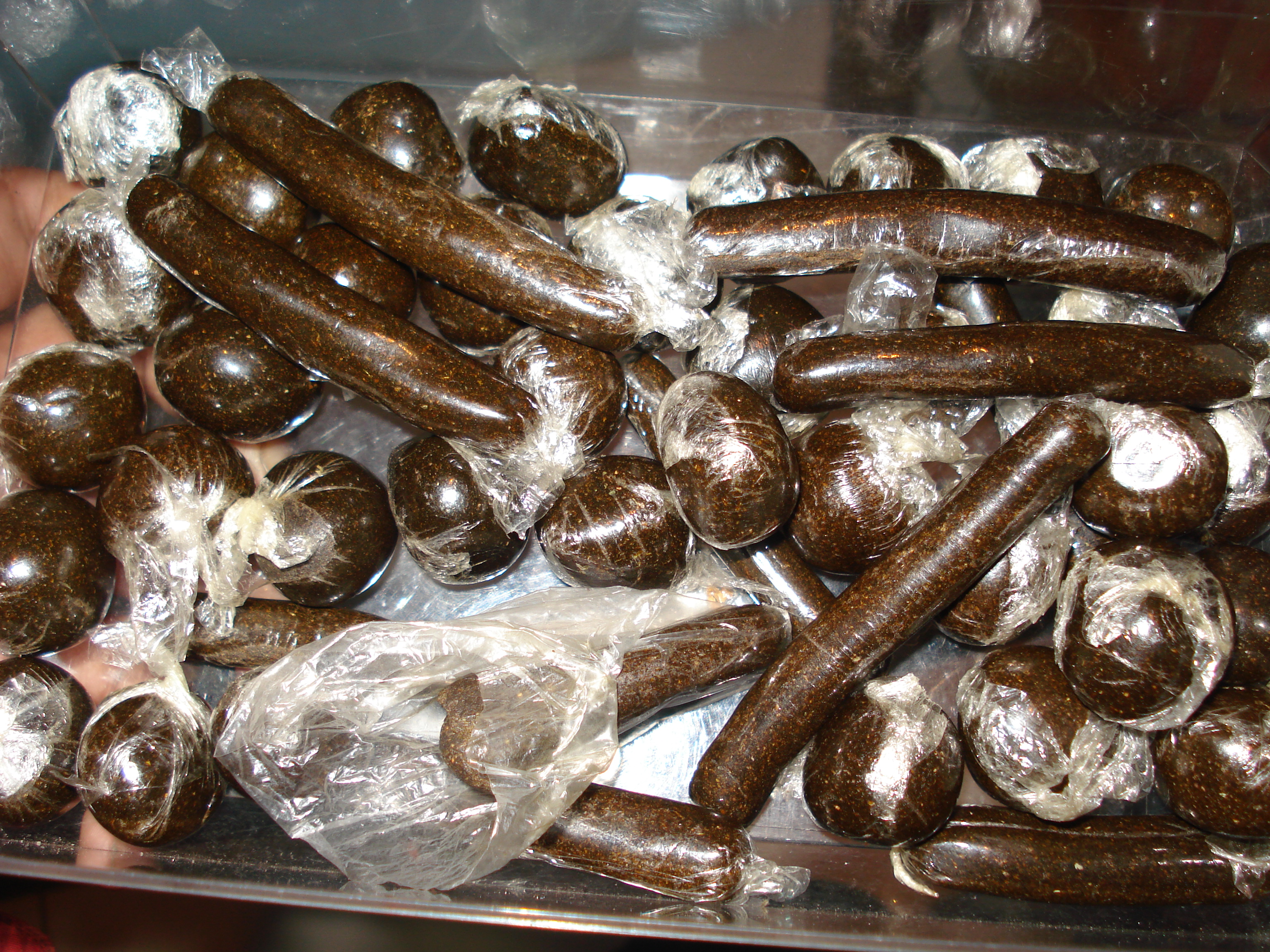 Balls and sticks of Charas.